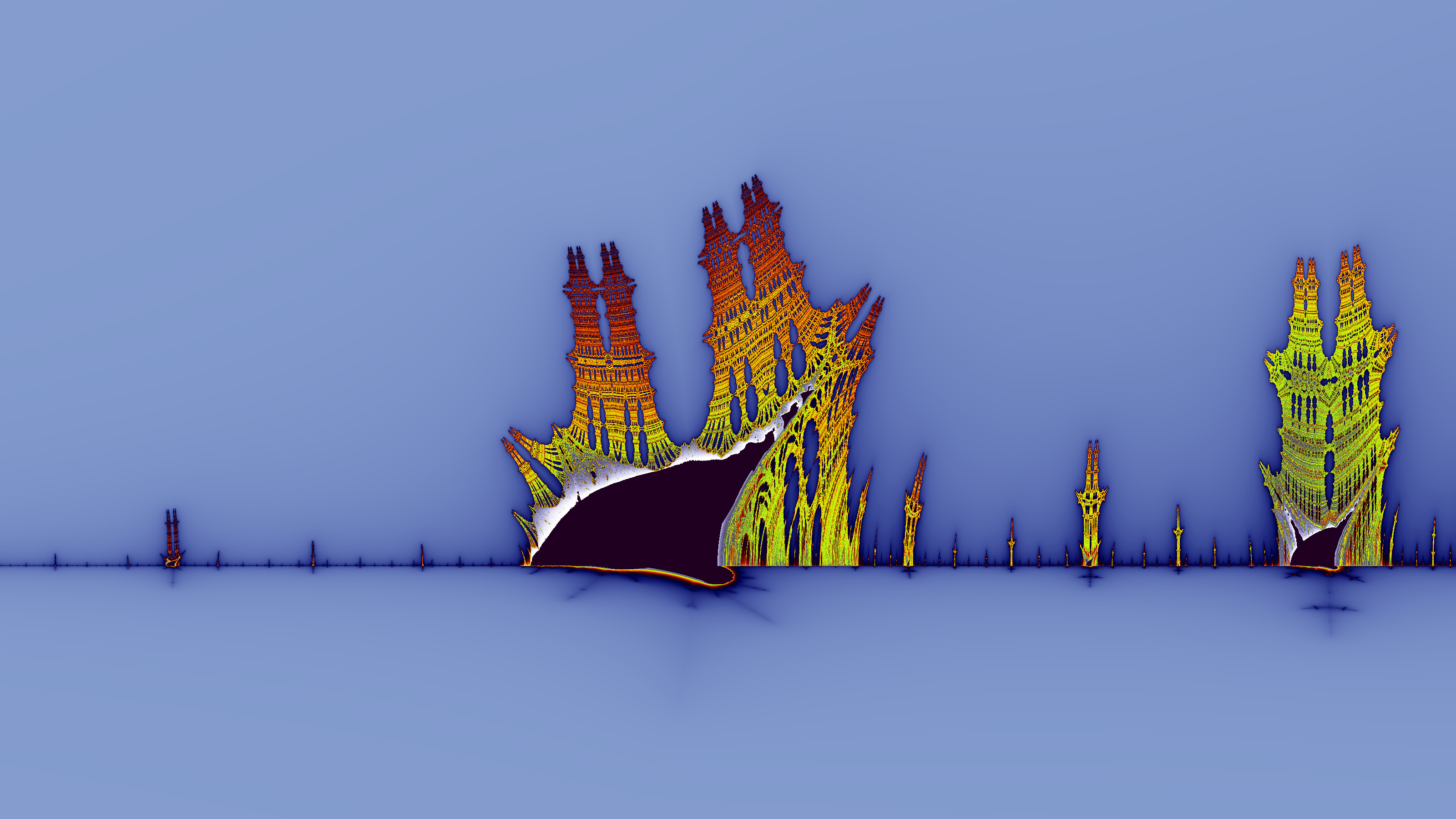 Closeup view of the left antenna region of the Burning Ship fractal. Created with custom software.